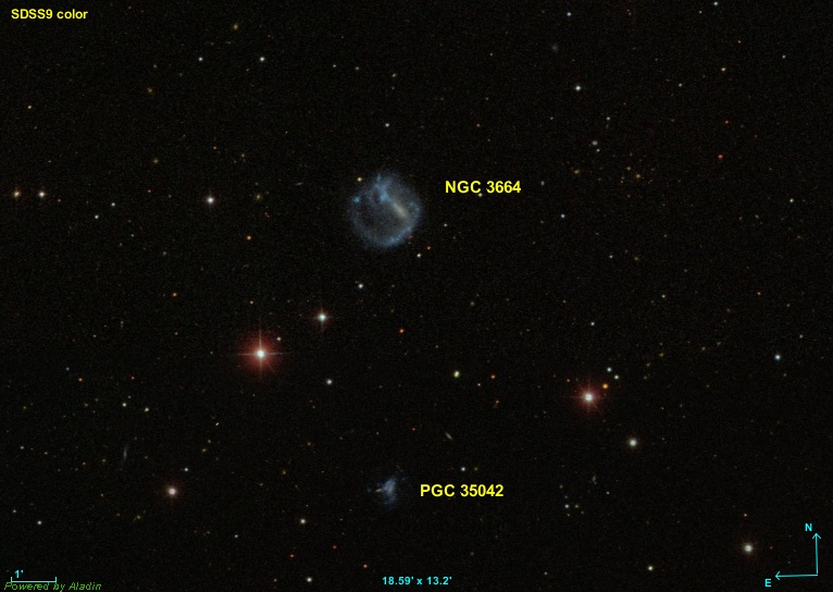 Image created using the Aladin Sky Atlas software from the Strasbourg Astronomical Data Center and SDSS (Sloan Digital Sky Survey) public data.